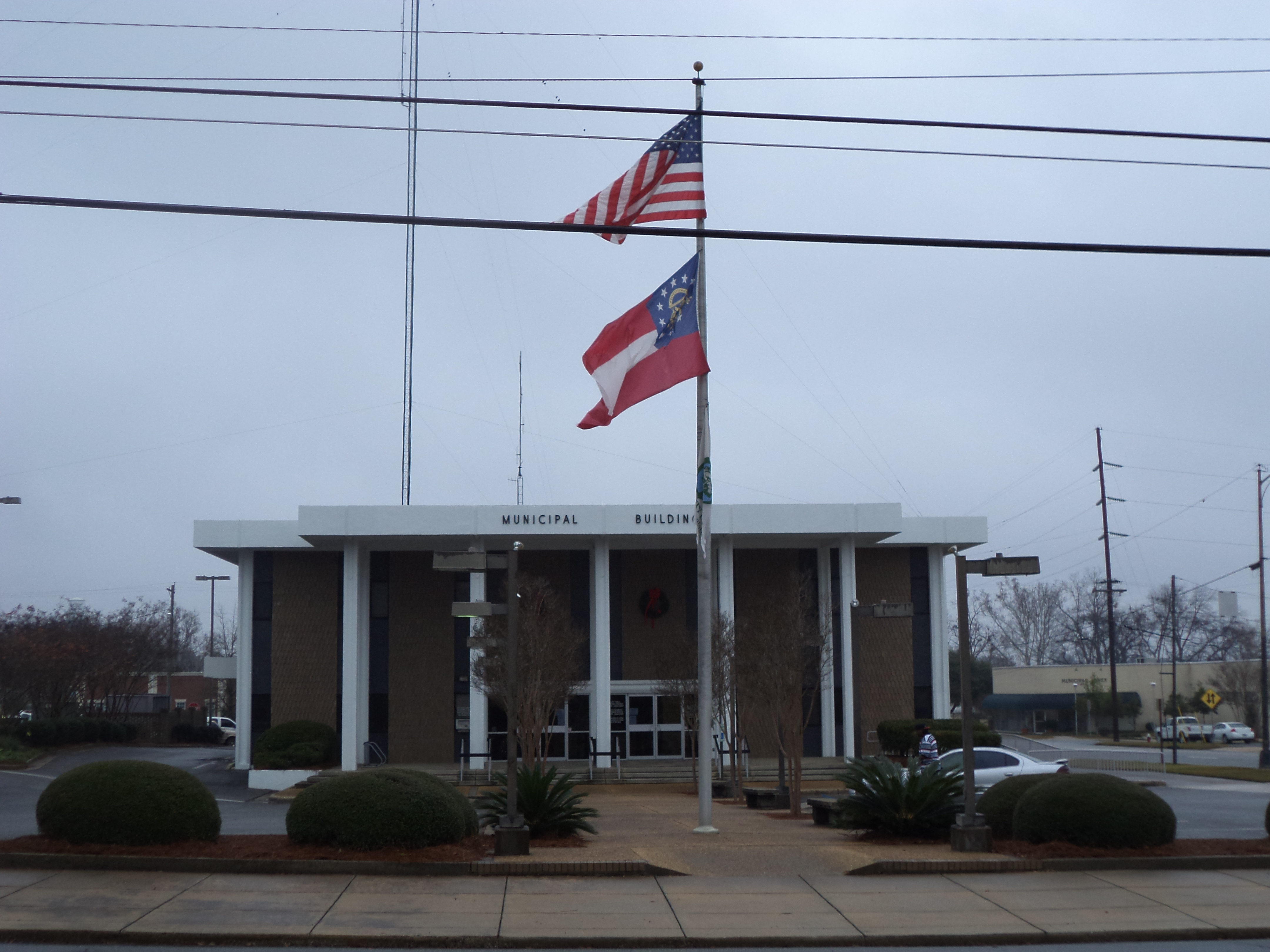 Moultrie Municipal Building, 21 1st Ave NE, Moultrie, Colquitt County, Georgia